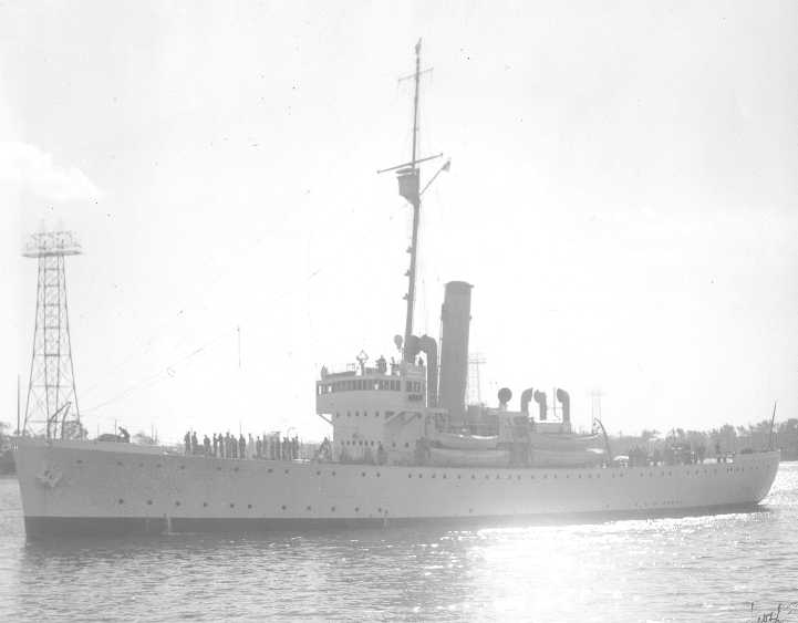 USCGC Pontchartrain; underway, view from port-side, pre-World War II.